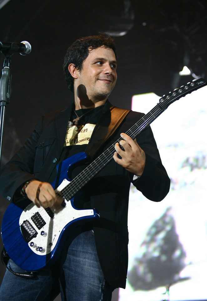 Alejandro Sanz performing in Managua, Nicaragua on November 1, 2007.